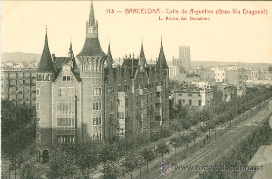 Foto anataño